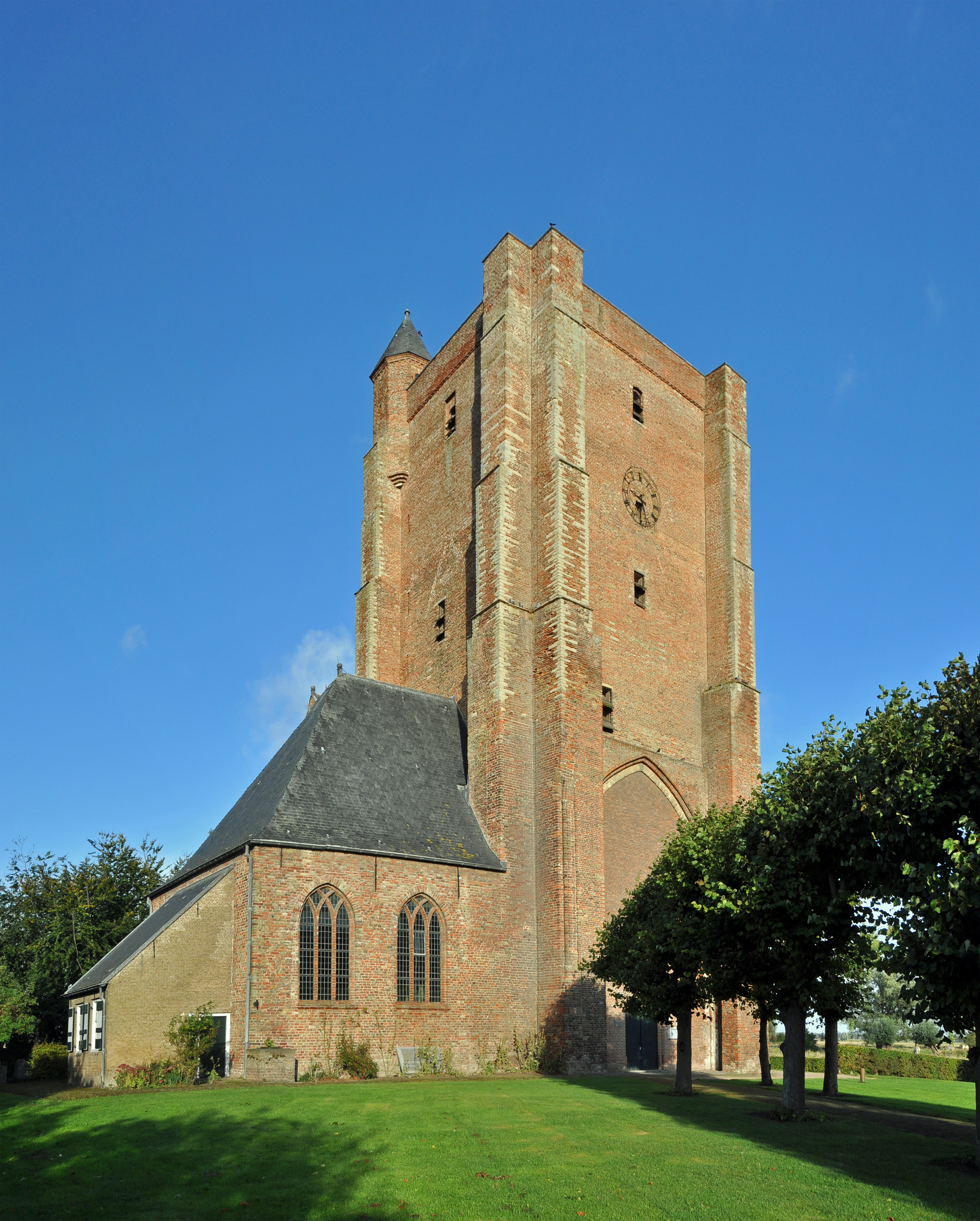 Sint Anna ter Muiden (Sluis, the Netherlands): the church